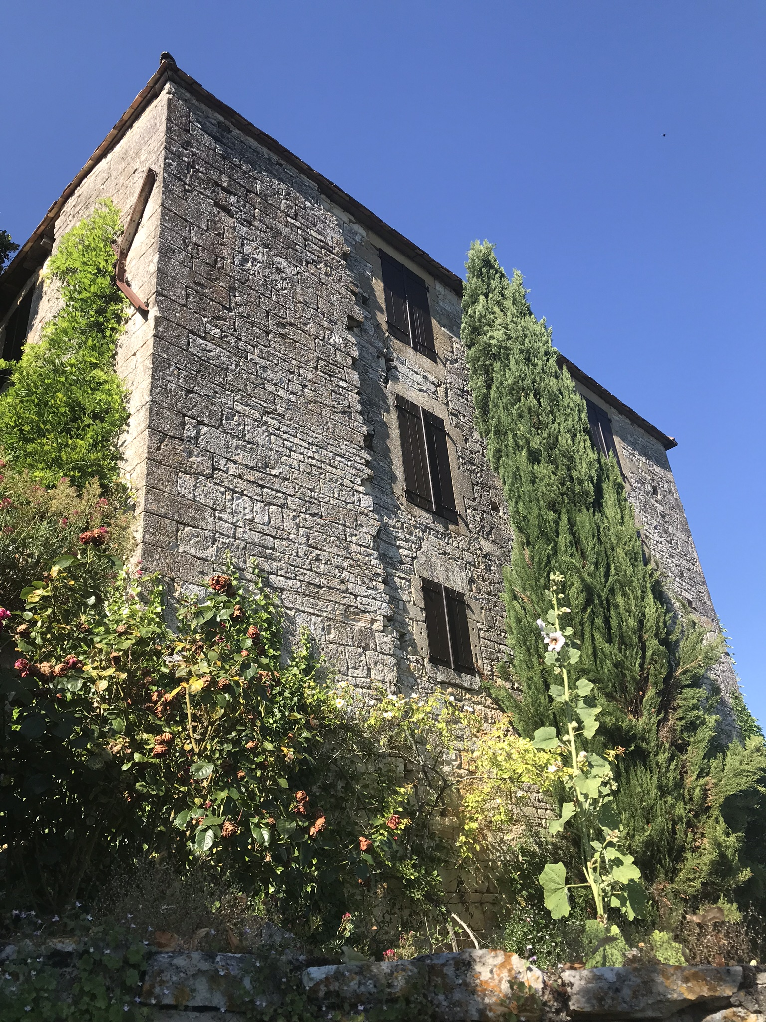 Château